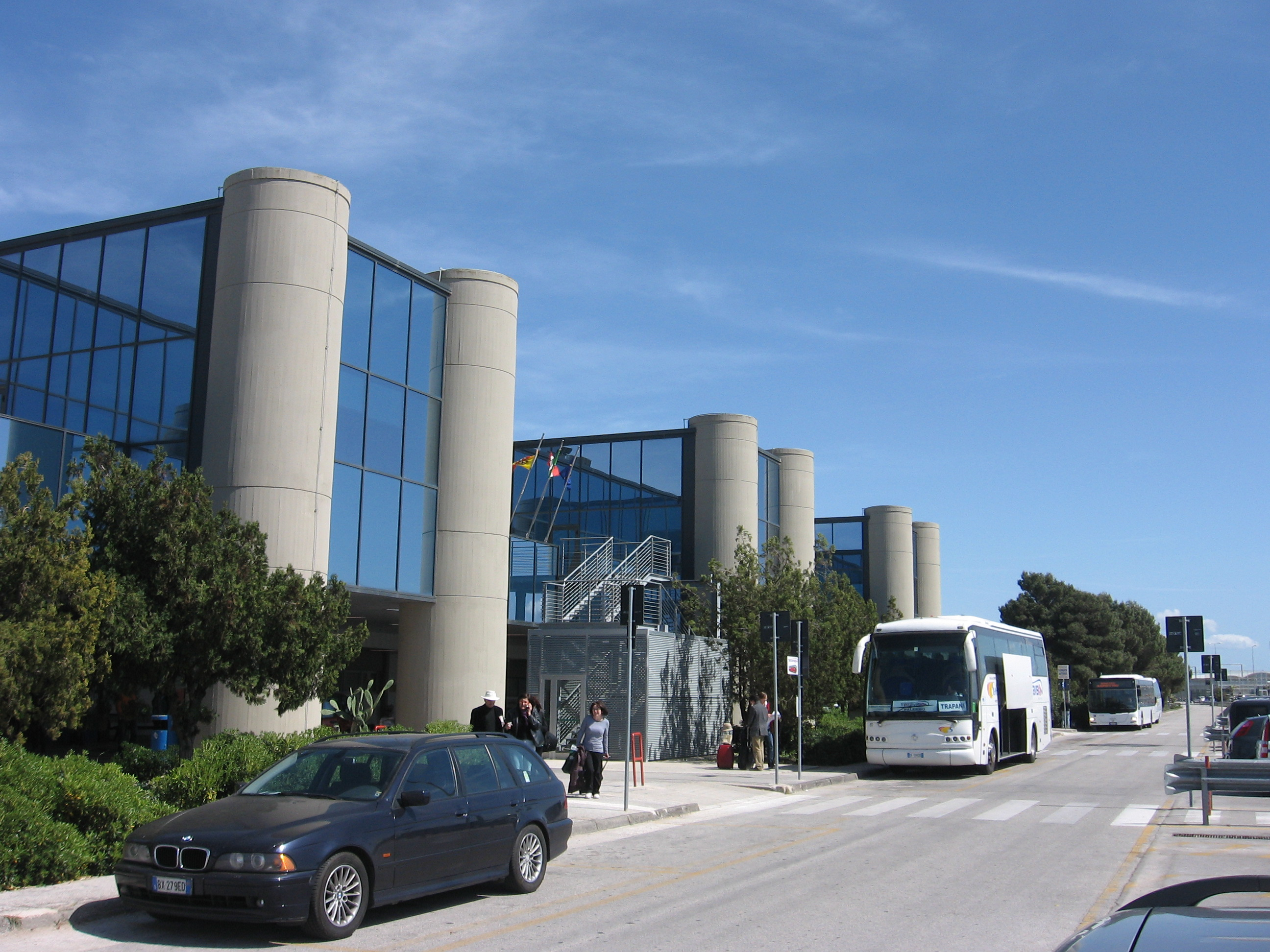 Trapani-Birgi Airport, front